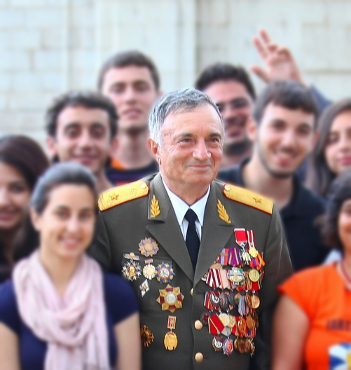 Armenian hero of the Artsakh War in Shushi in May 2012, 20 years after the liberation of the town from Azeris